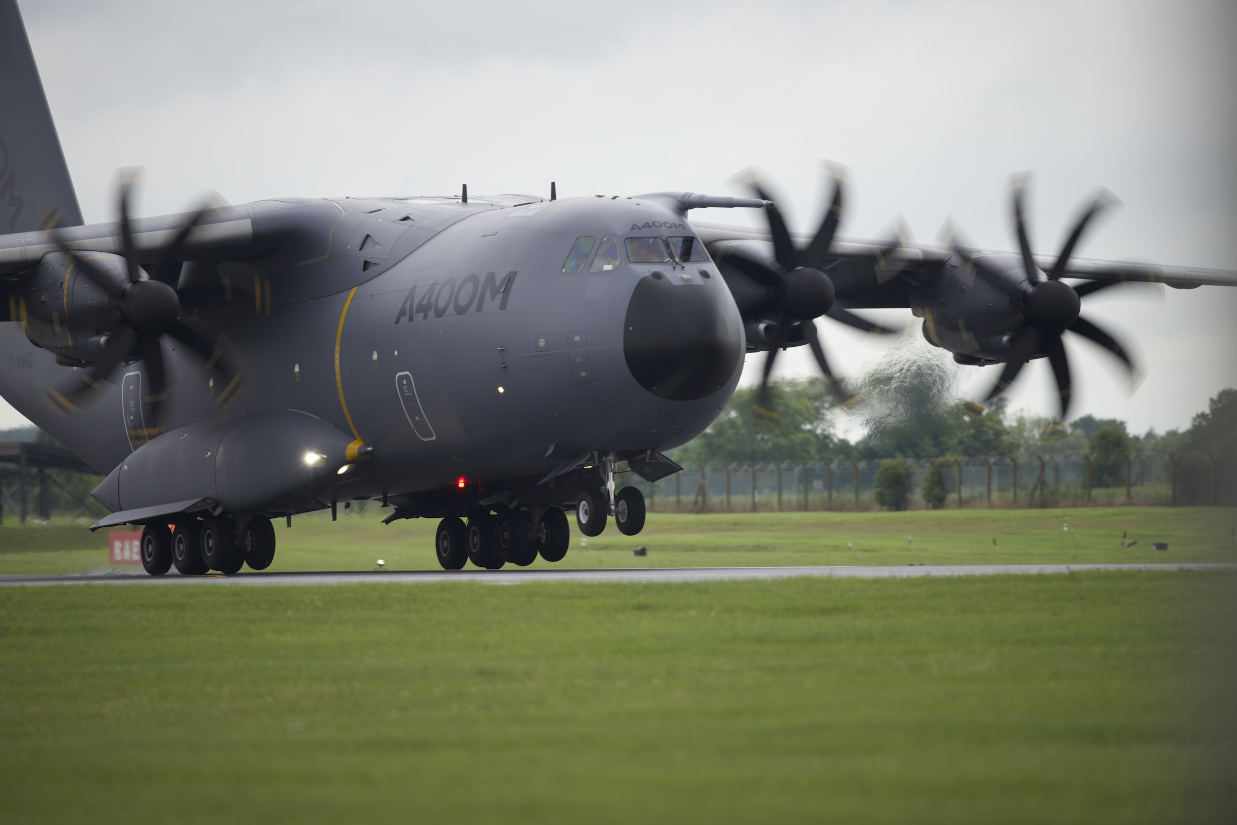 Royal International Air Tattoo 2012